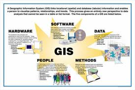 gis source